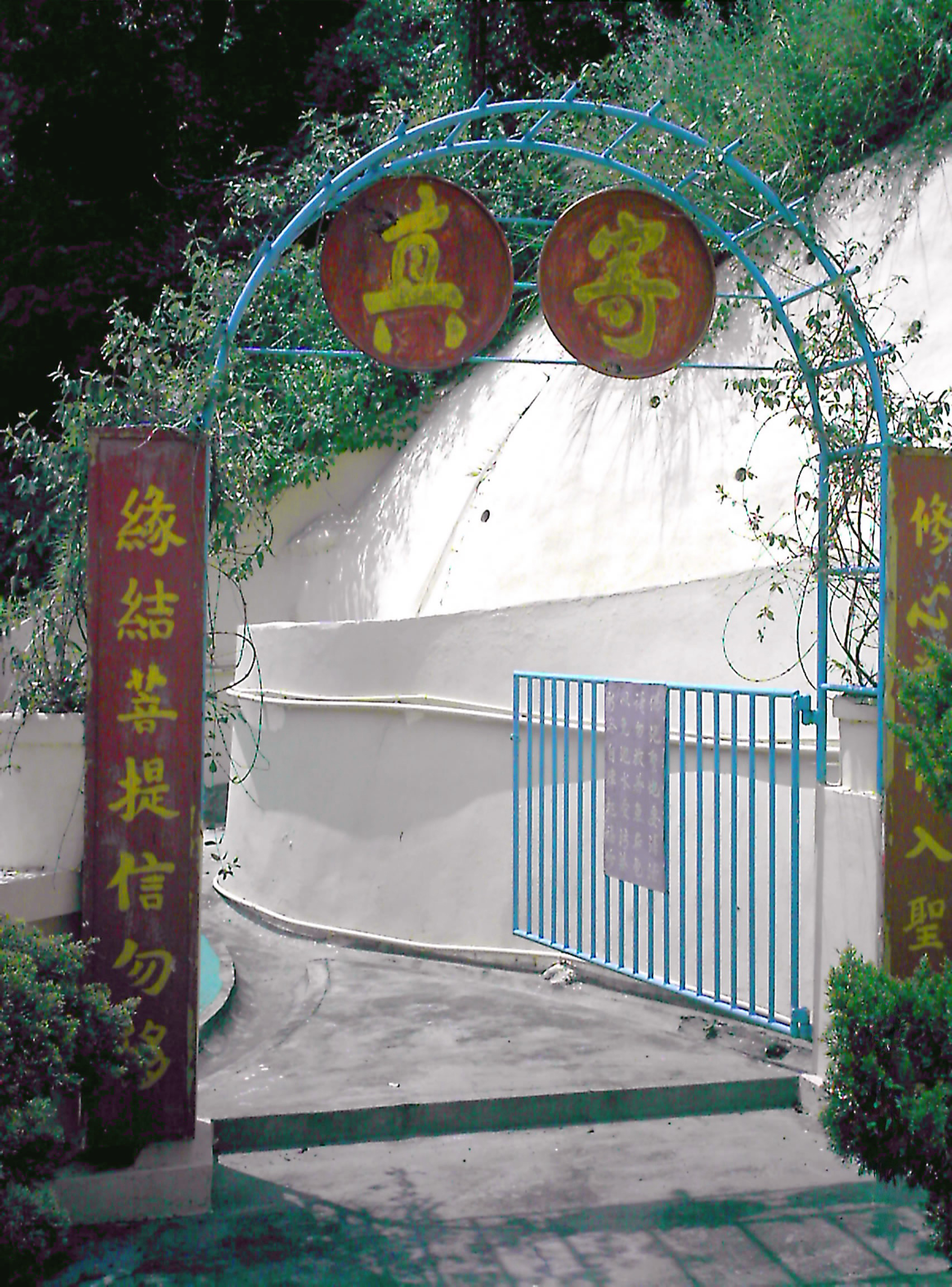 Main Gate to Huazhung Temple Sculpture, Hong Kong and Kowloon Fuk Tak Buddhist Association 中文（香港）: 港九福德念佛社，通住化真寺雕塑的大門